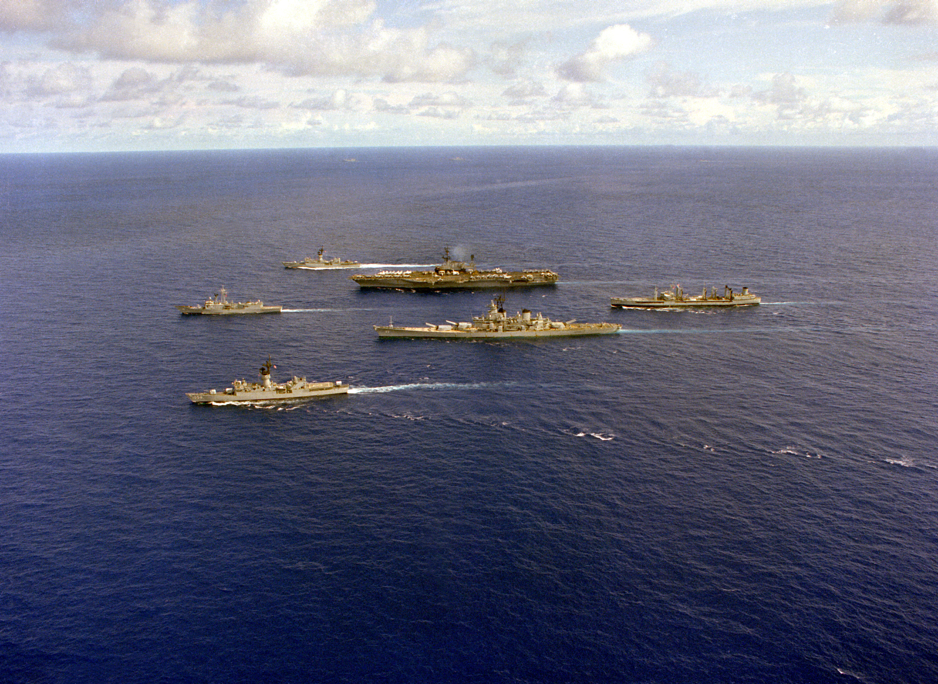 A port view of vessels in the aircraft carrier USS MIDWAY (CV-41) battle group underway in formation. The vessels include, from left: the frigate USS MEYERKORD (FF-1058) and the guided missile frigate USS JOHN A. MOORE (FFG-19), front row; the battleship USS NEW JERSEY (BB-62) , the aircraft carrier USS MIDWAY (CV-41) and the frigate USS FRANCIS HAMMOND (FF-1067), center, and the fleet oiler USNS MISPILLION (T-AO-105), rear